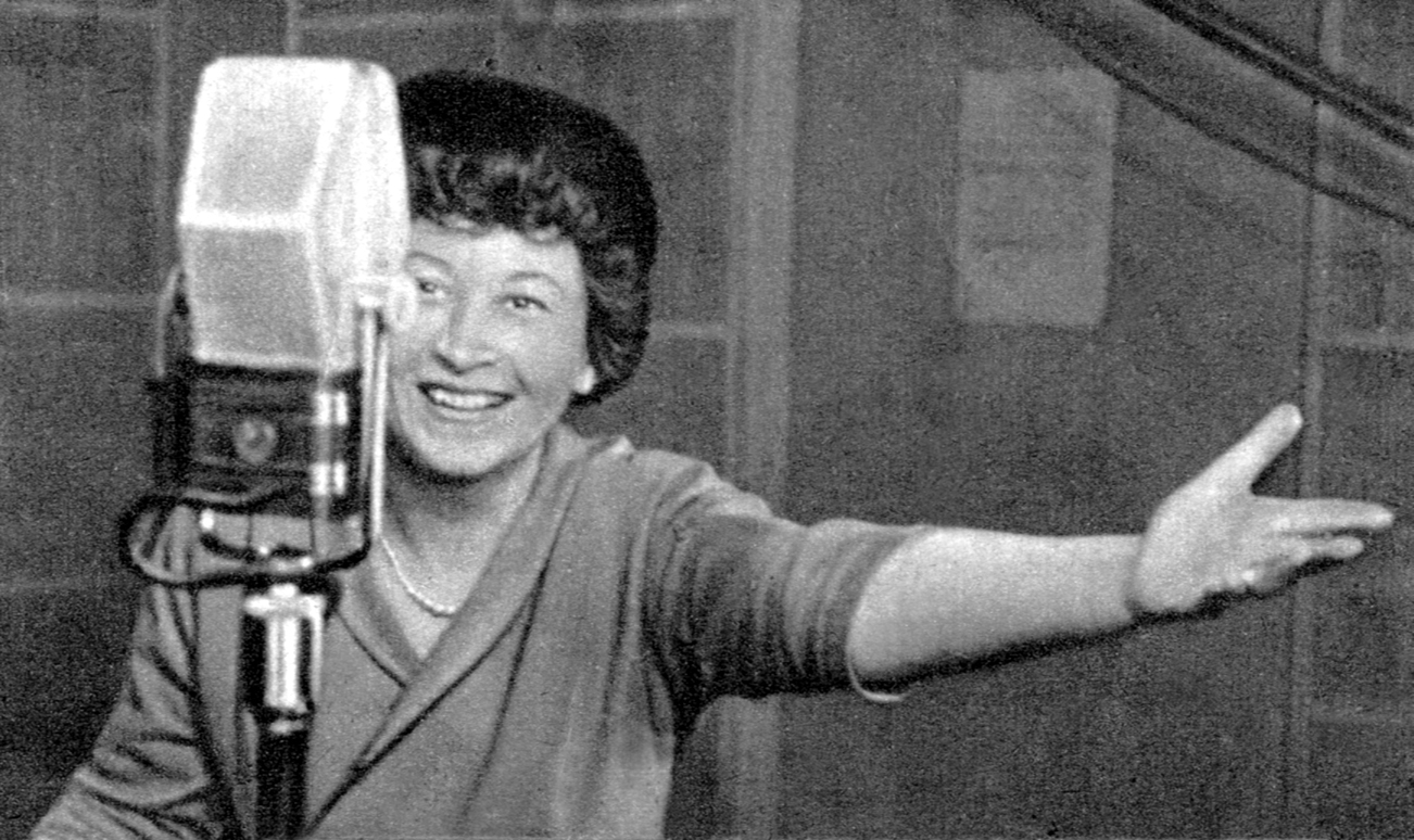 Irena Kwiatkowska, Polish actress